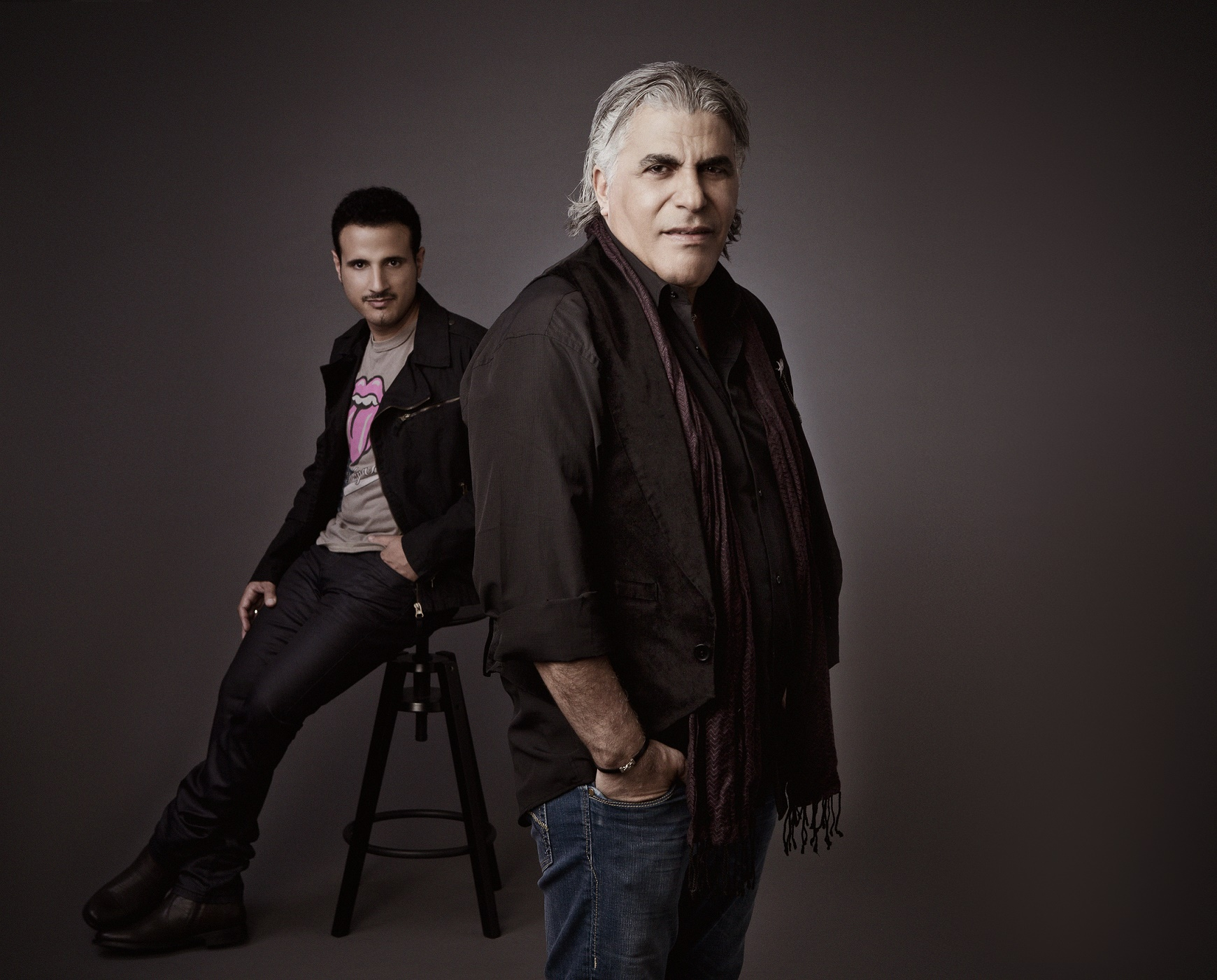 The project "Panasim" (the song "Zikhronot"): Musicians Gabi Shoshan & Eliran Levi